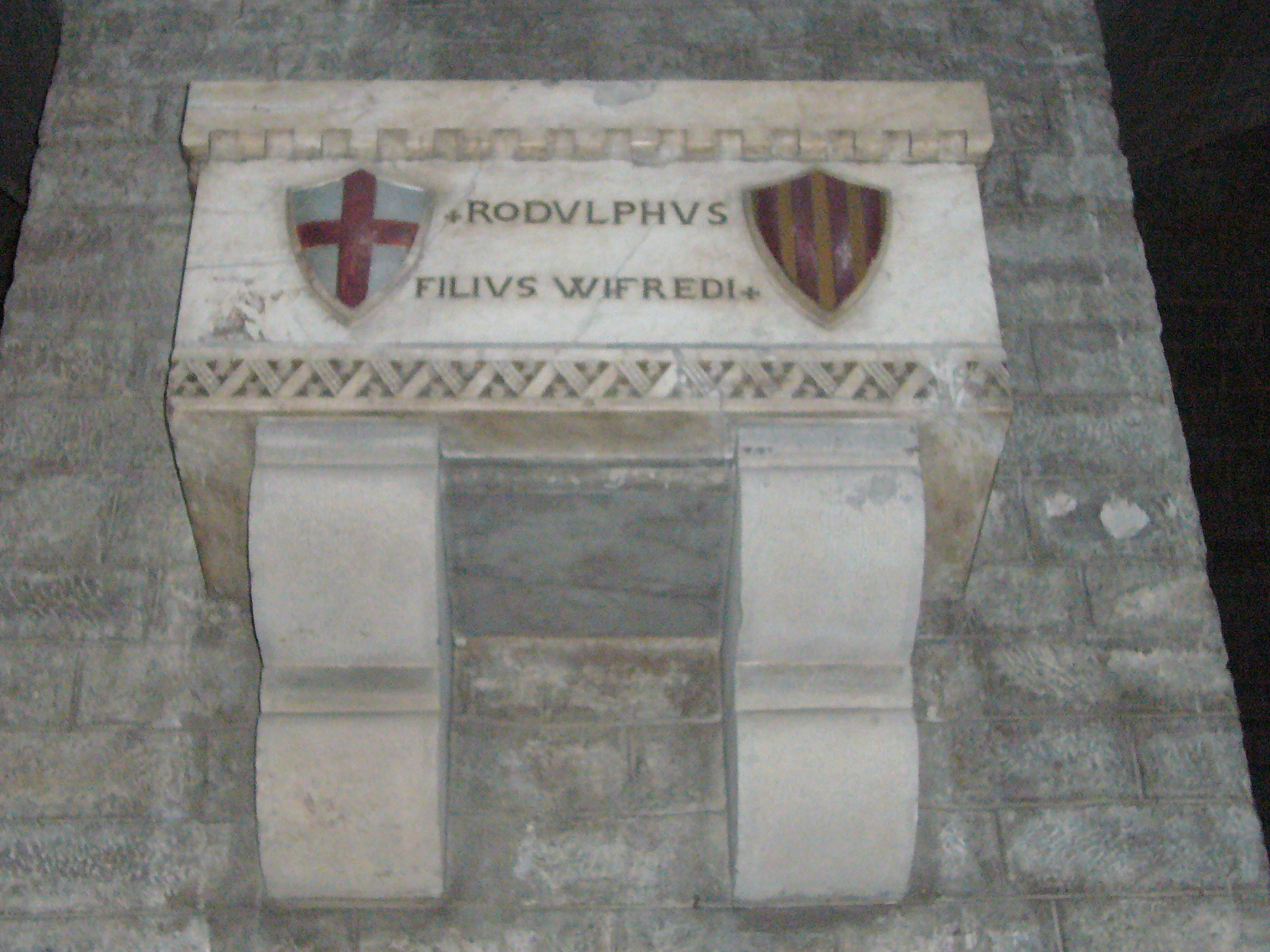 Interior of Santa Maria de Ripoll Monastery.